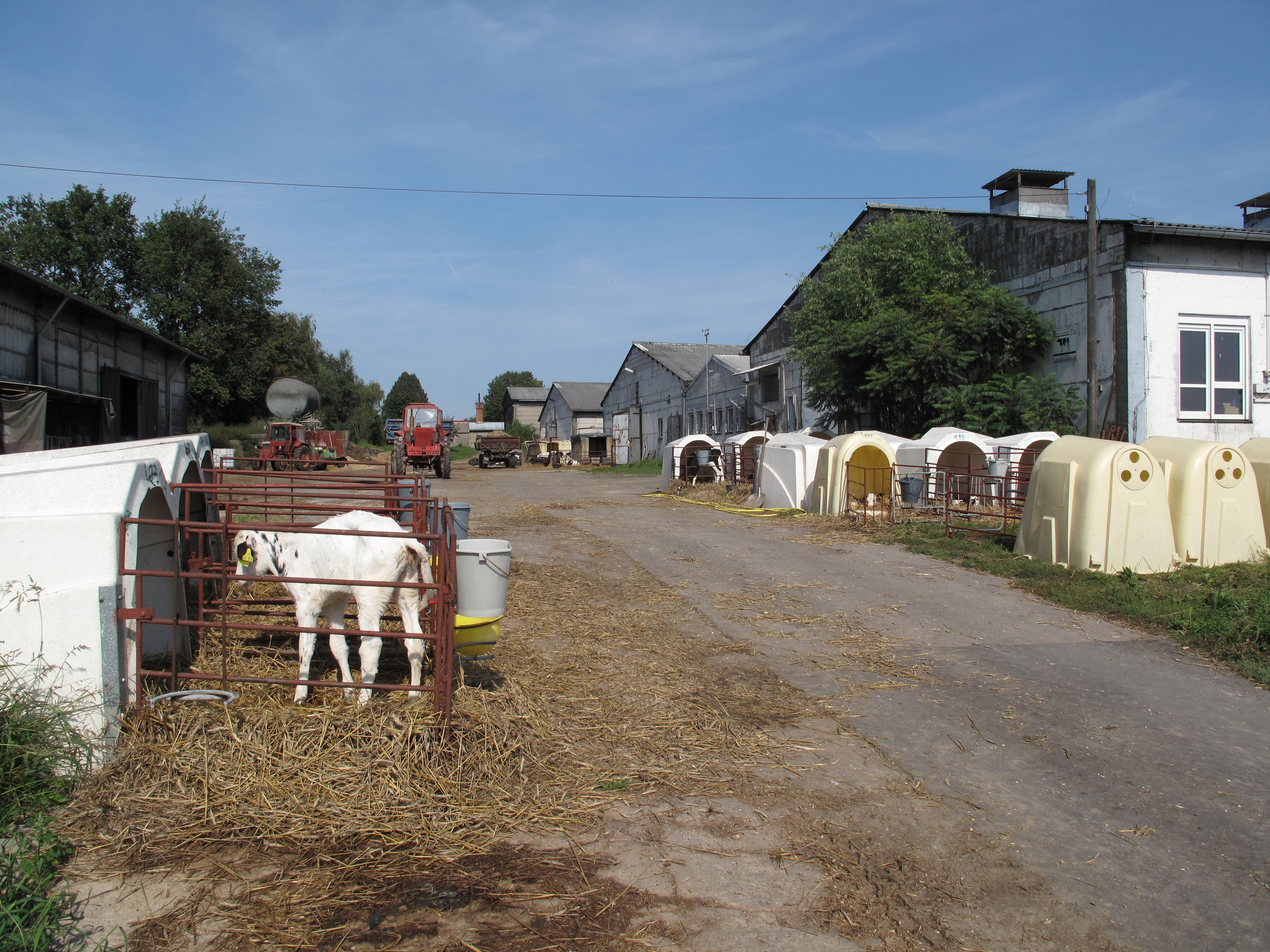 Agricultural holding in Ernsthof. Ernsthof is a hamlet of Grunow, a village of the municipality Oberbarnim in the District Märkisch-Oderland, Brandenburg, Germany. Ernsthof was founded in 1833 as folwark of Grunow.